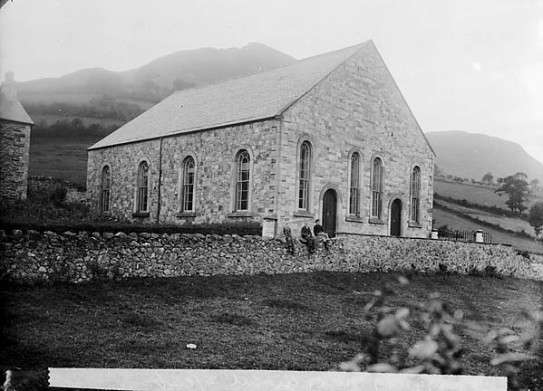 1 negative : glass, dry plate, b&w ; 12 x 16.5 cm.